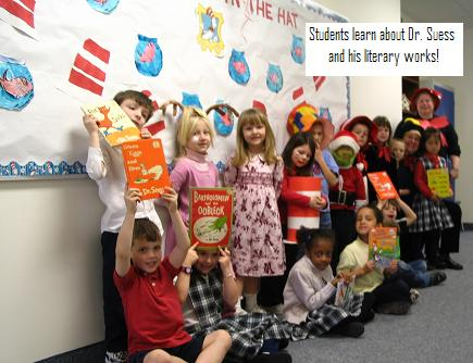 Students learn about Dr. Seuss and his literary works!